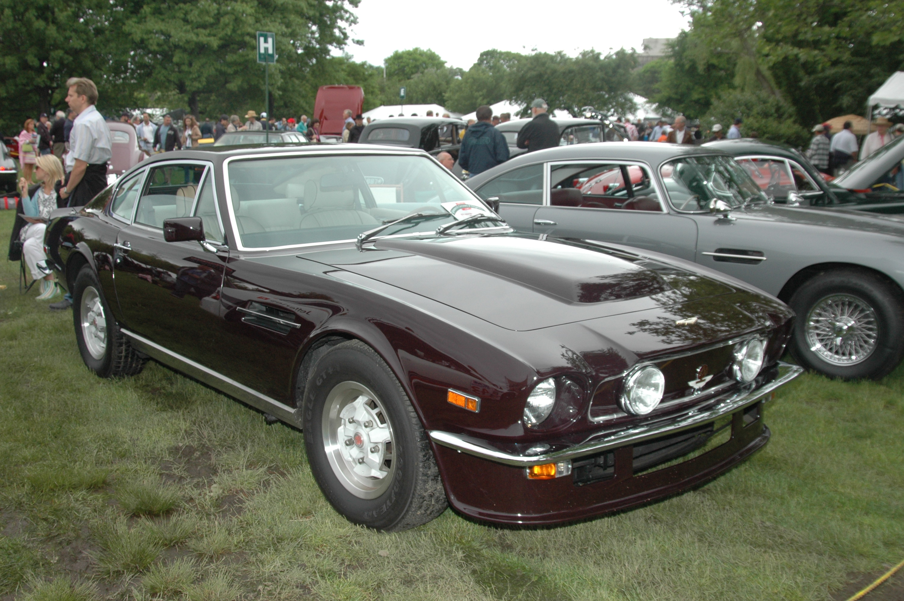 1976 Aston Martin V8 Cosmetic Vantage (Painted in Rare Royal Cherry) Photographed by Jagvar at the Greenwich Concours d'Elegance in Greenwich, CT on June 4, 2006.